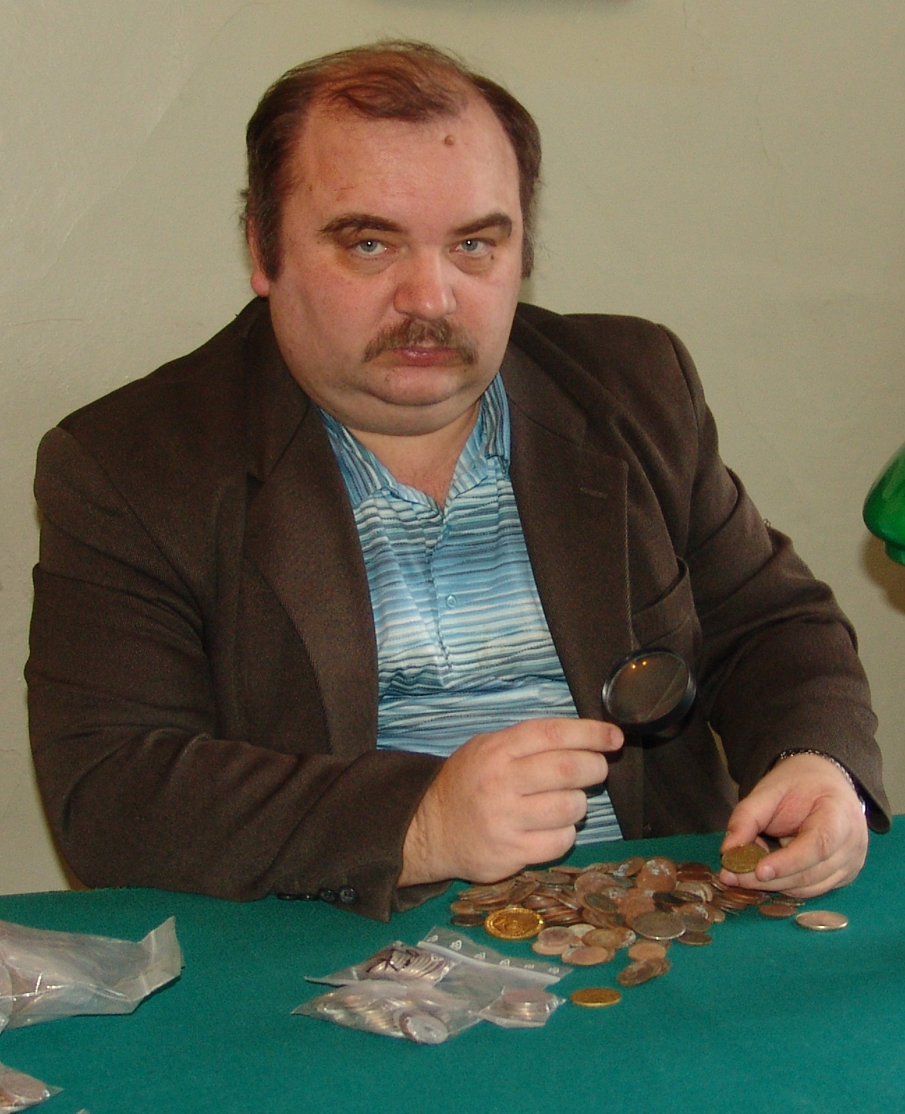 Alexandr Bykov, russian historian-numismatist